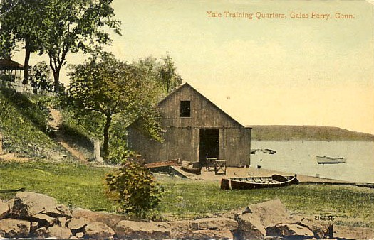 Picture (slightly cropped at edges) from a postcard depicting Yale boat crew training quarters in Gales Ferry, sometime from 1907 to 1915